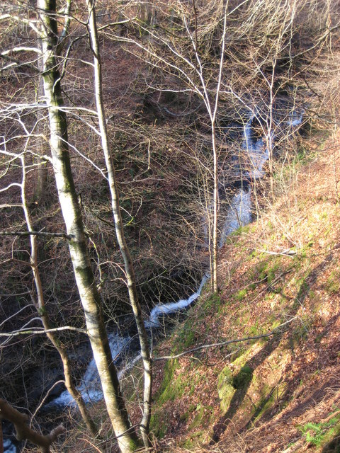 Falls of Barvick. Taken from the path on the East side of the falls, downstream from 256178